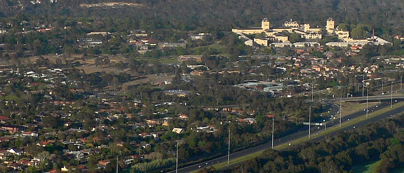 Aerial view of northern part of Kew, showing the Eastern Freeway, Studley Park and Kew Asylum